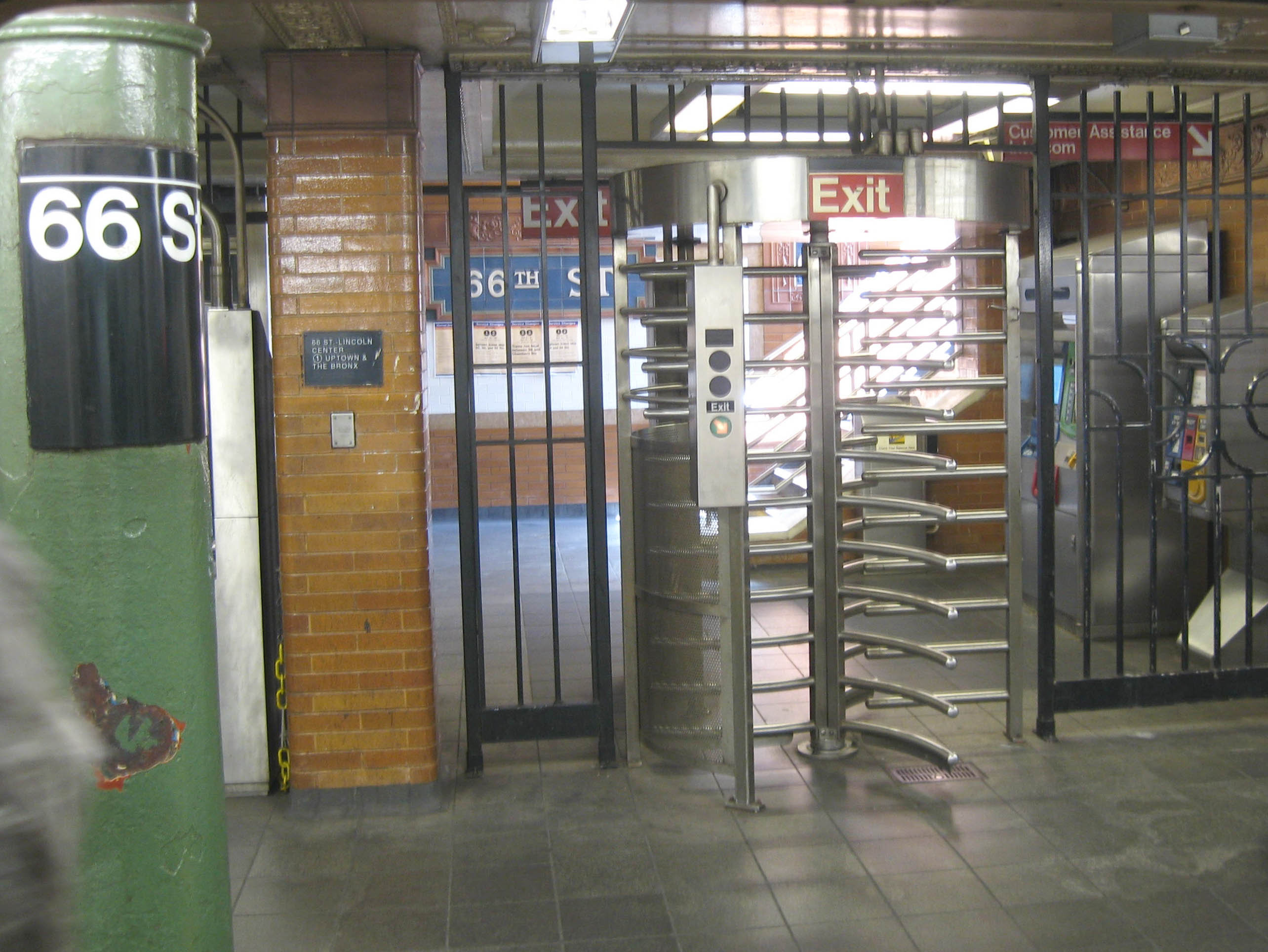 Looking east across uptown platform at HEET turnstyle of en:66th Street–Lincoln Center (IRT Broadway–Seventh Avenue Line) and street stairway beyond.